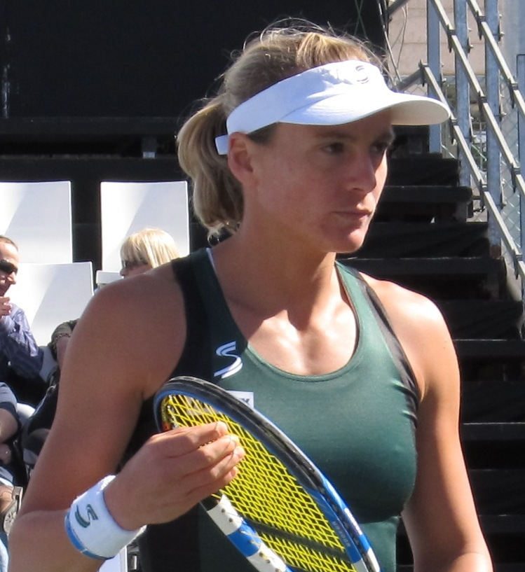 The tennis player Sybille Bammer of Austria during her match against Victoria Azarenka of Belarus in the 1st day of Fed Cup Group I 2011 Europe/ Africa in Eilat, Israel